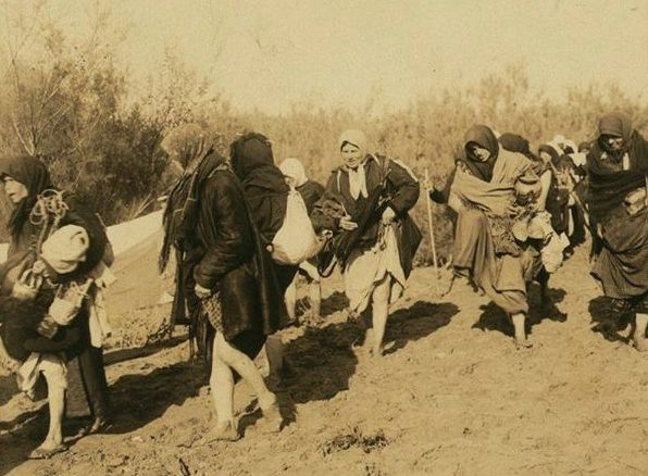 Jordanian Christian women visiting Al-Maghtas (baptism site of Christ), 1913